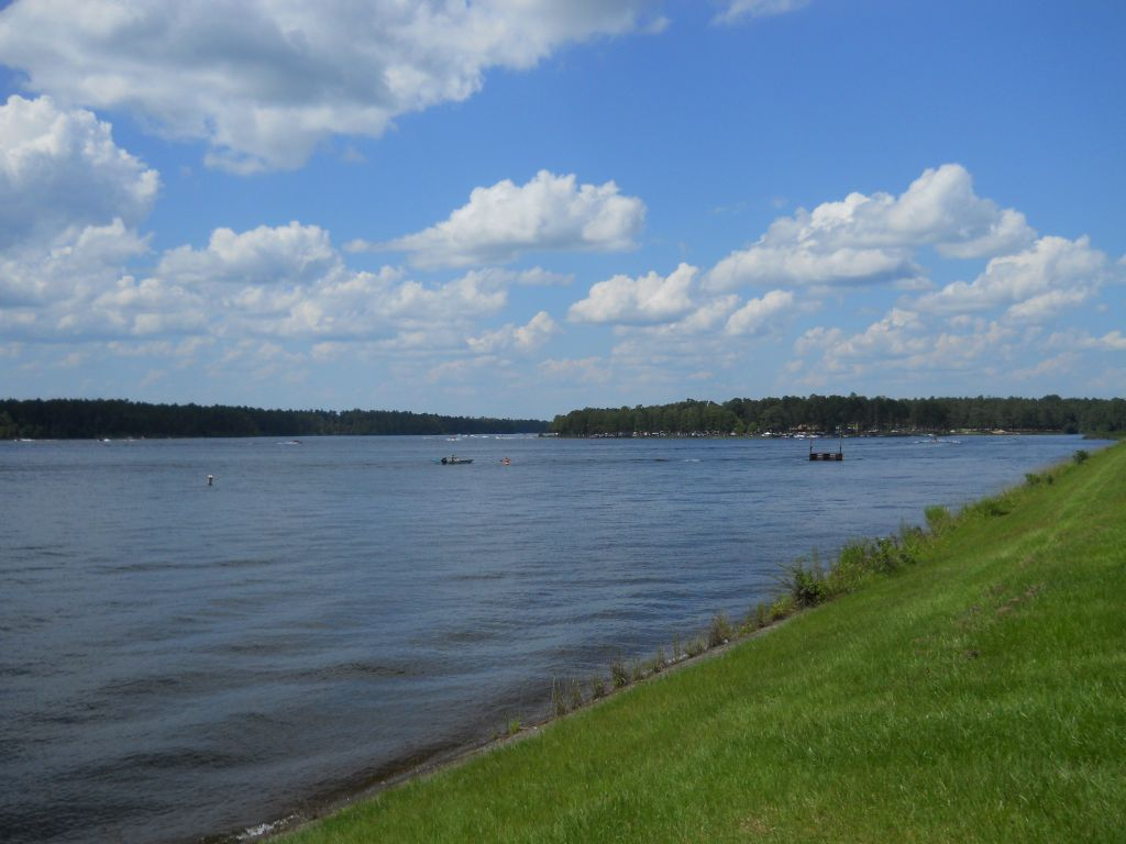 Flint Creek Water Park, Stone County, Mississippi, USA